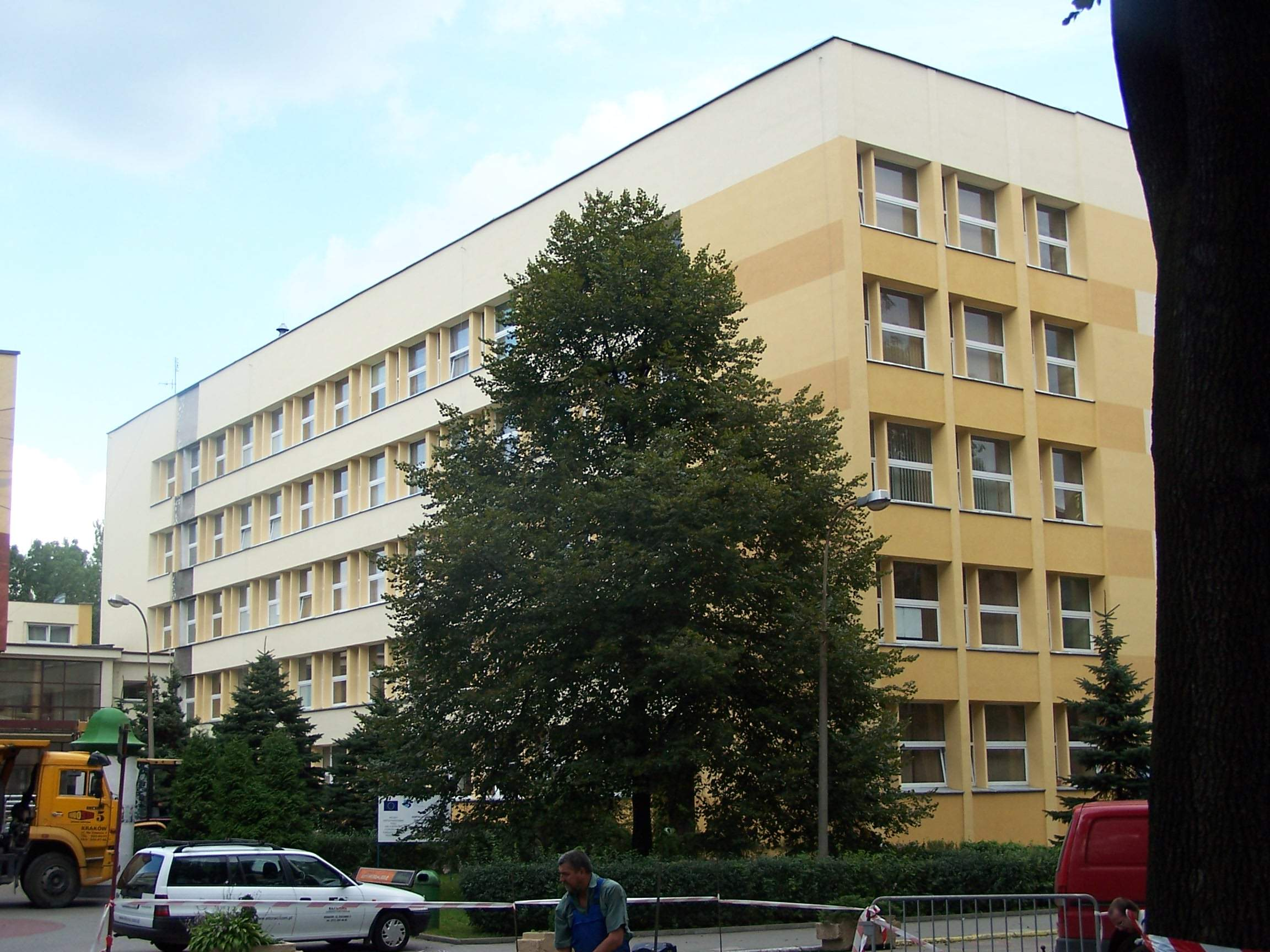 Photo by Piotrus. Academy of Economics in Kraków. Building B.